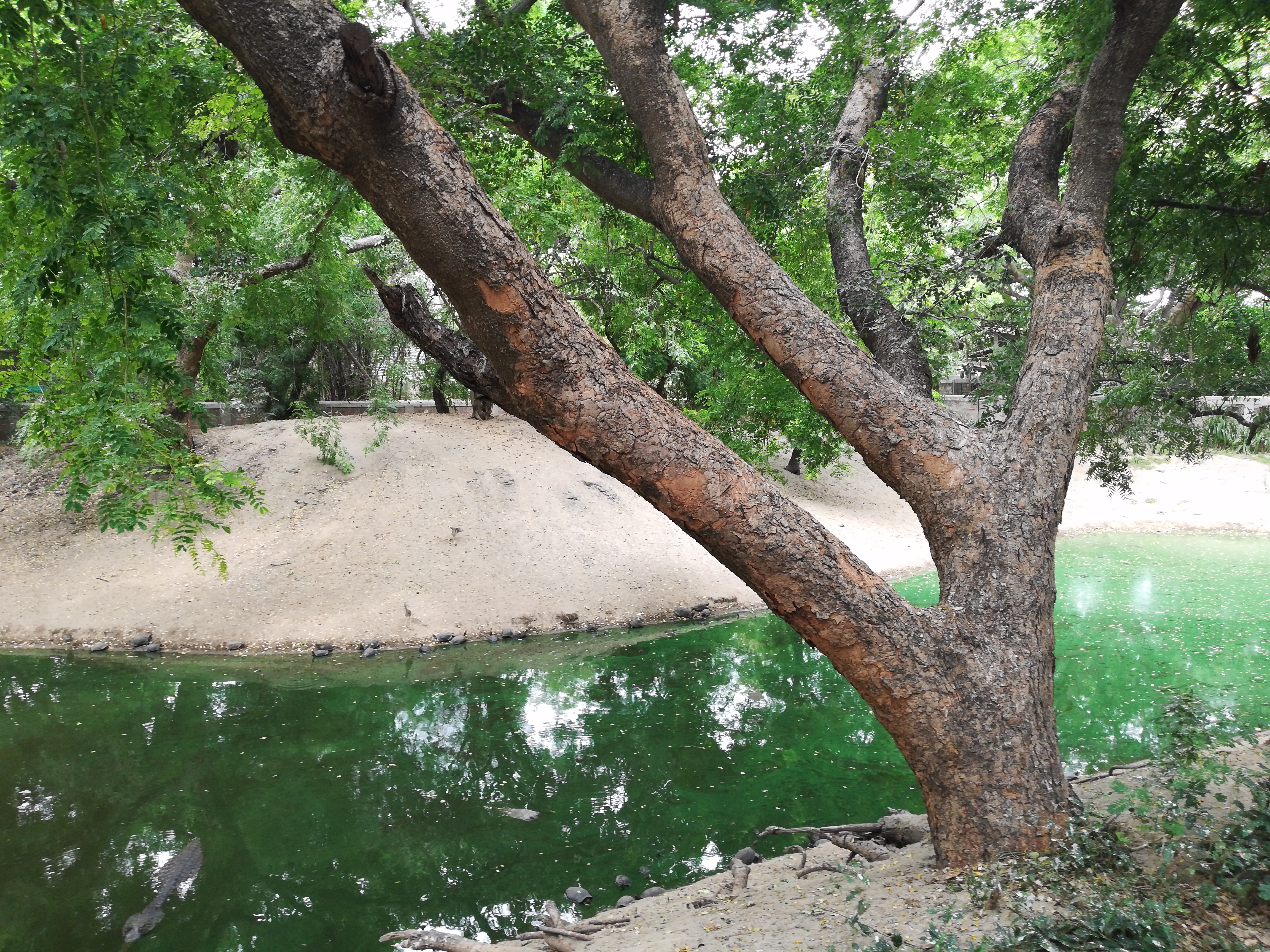 Typical moat at the CrocBank, Chennai, on 21 July 2018